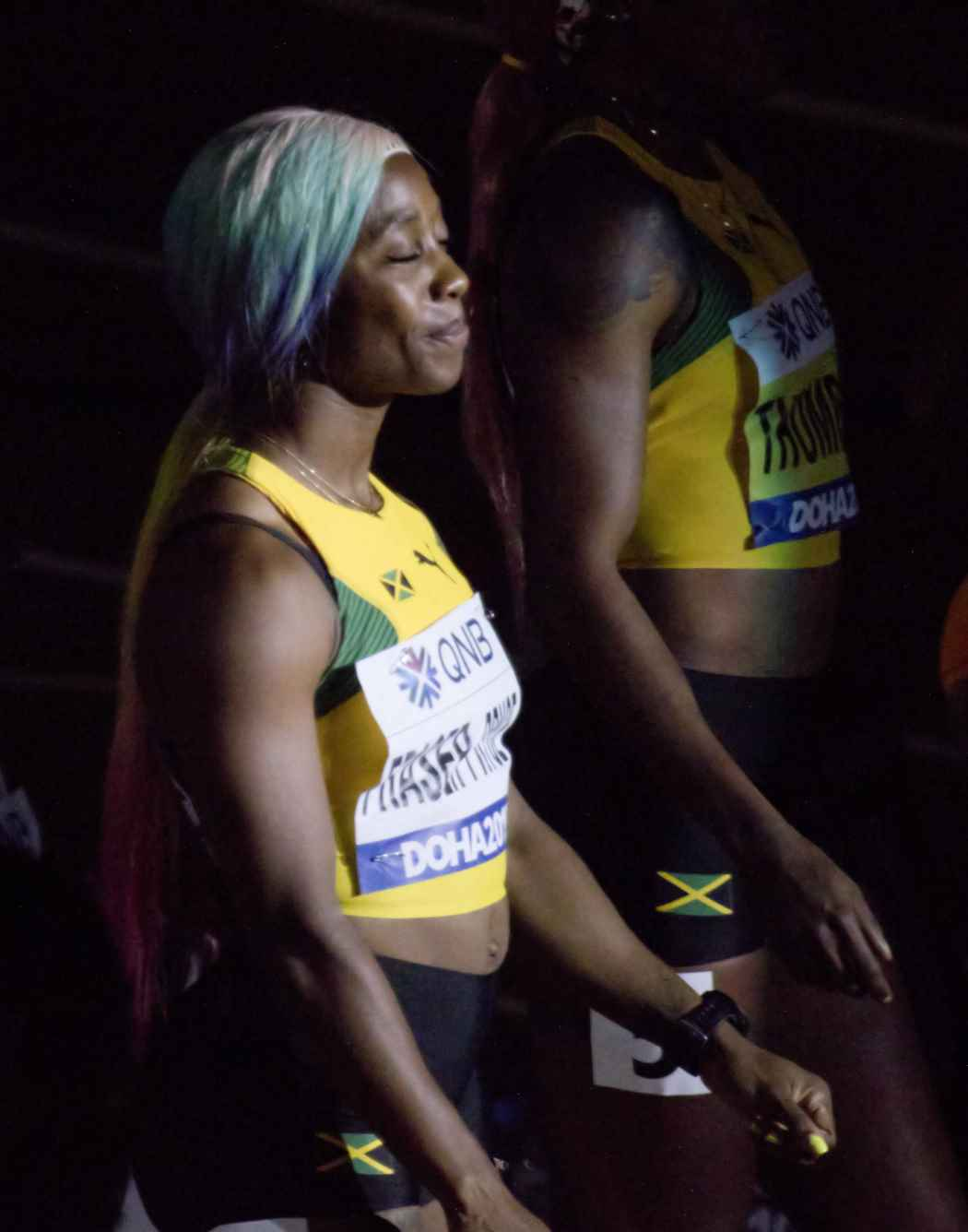 DOH30178 100m final women